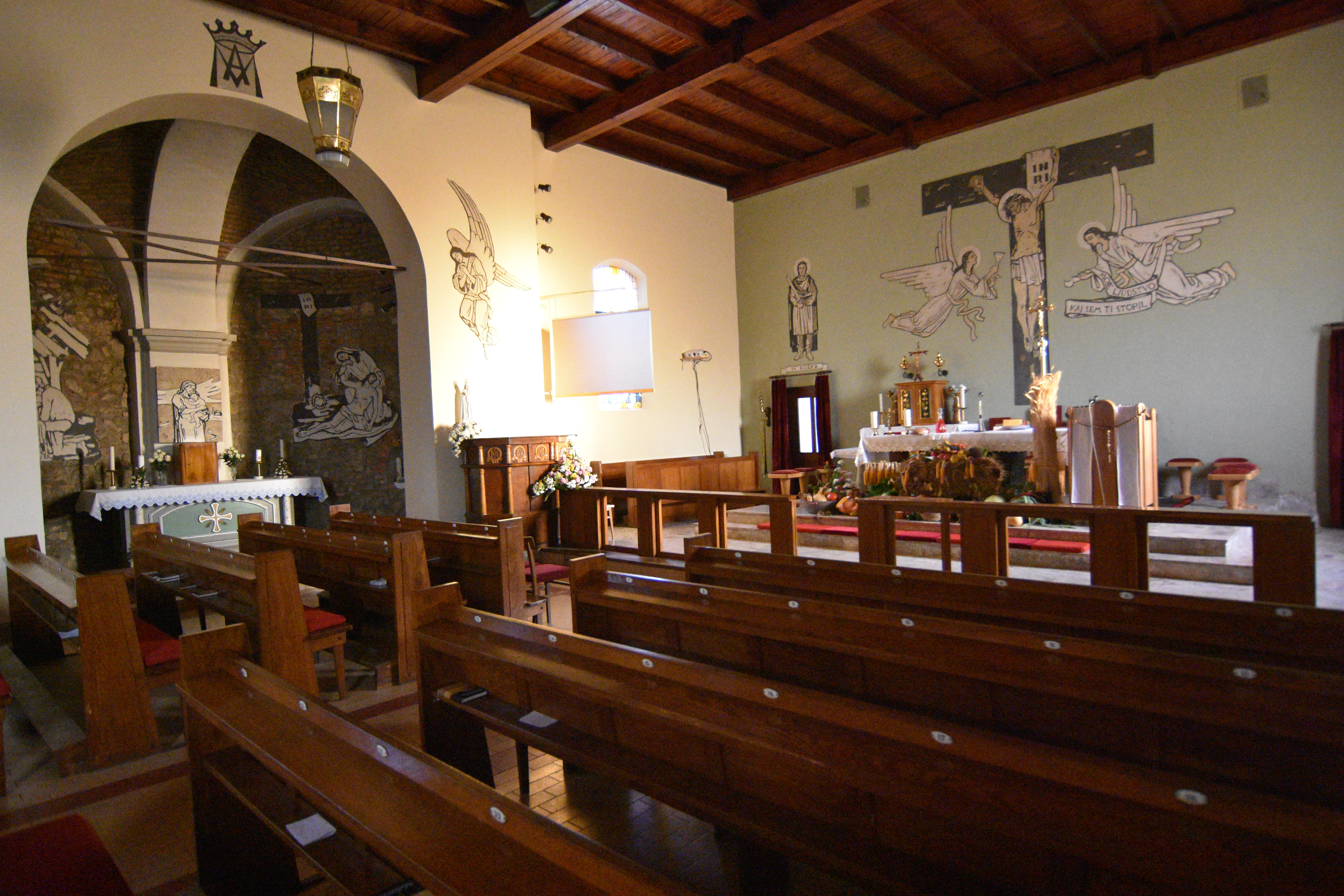 Church Kuzma, interieur